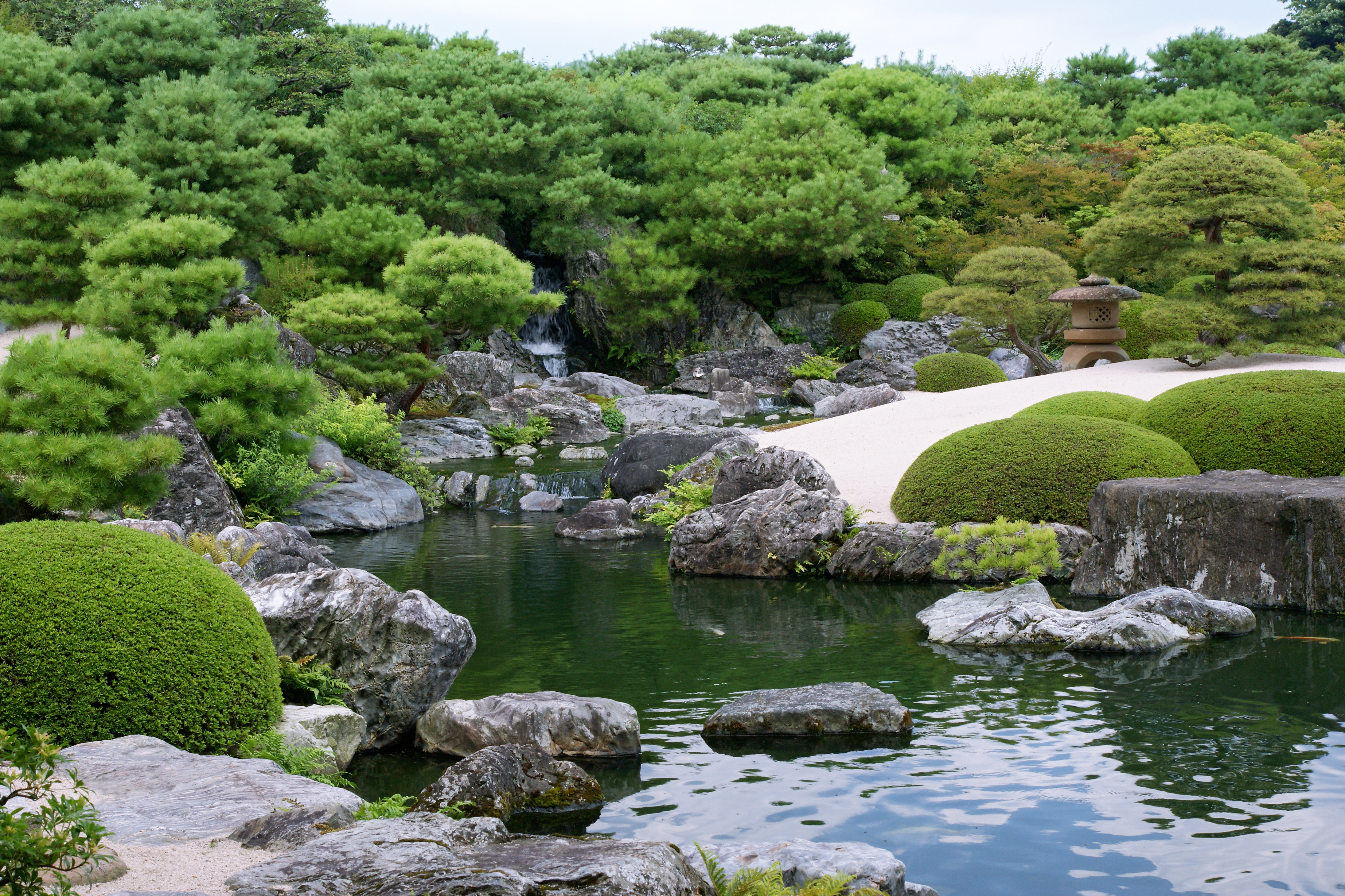 Adachi Museum of Art in Yasugi, Shimane prefecture, Japan